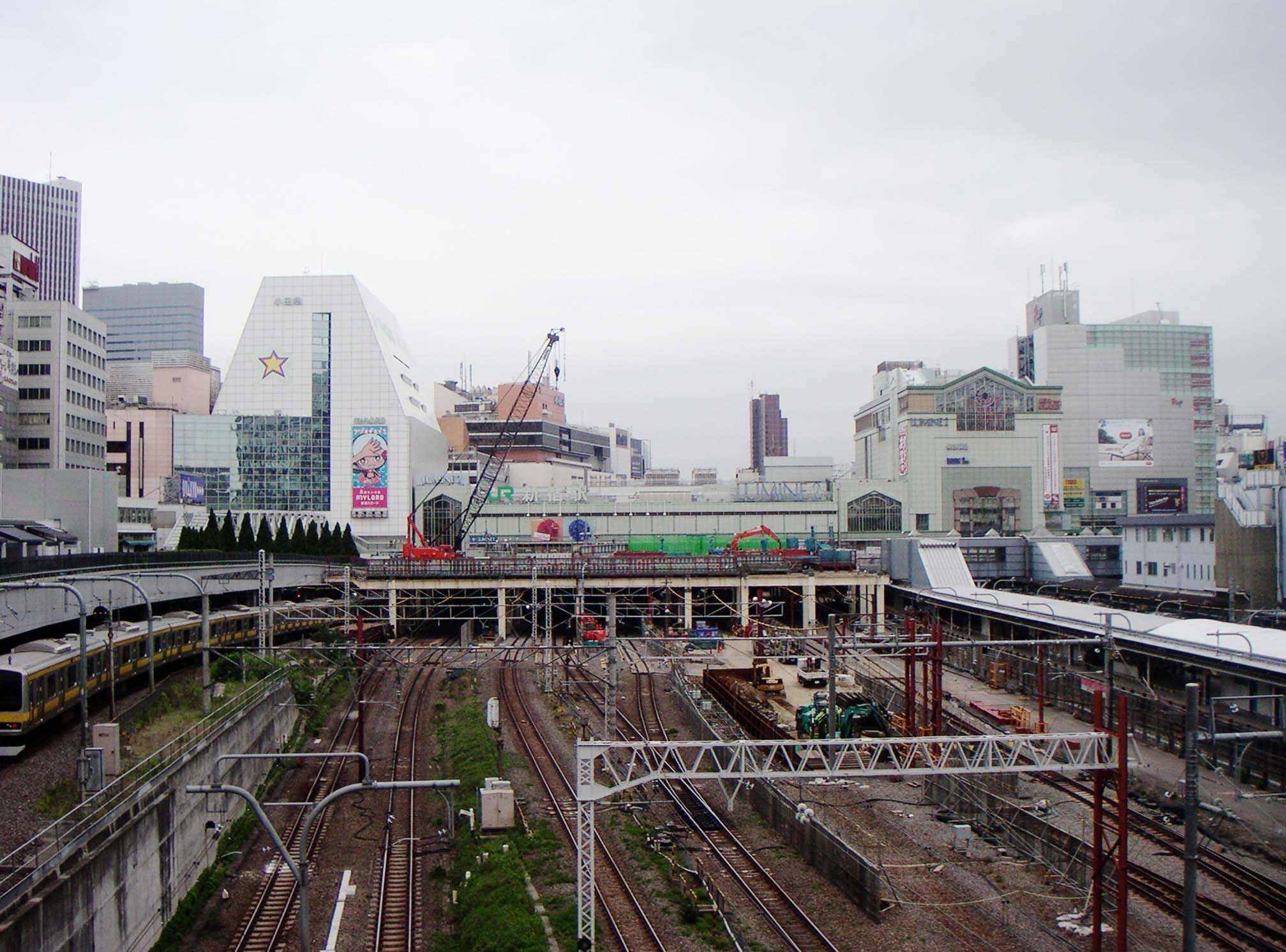 Shinjuku Station, Tokyo. Southern view.